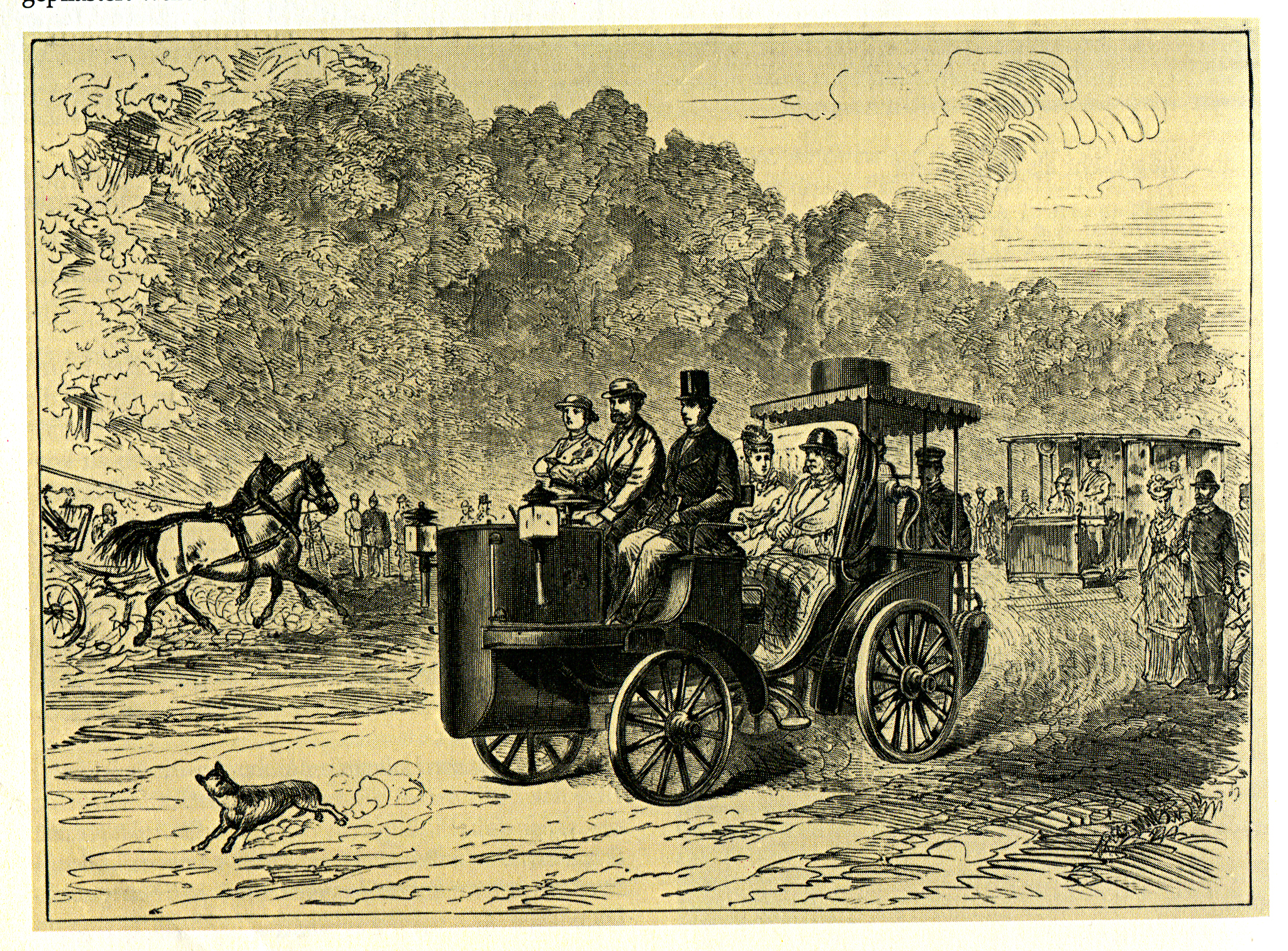 Steam powered omnibus on Charlottenburgs highway